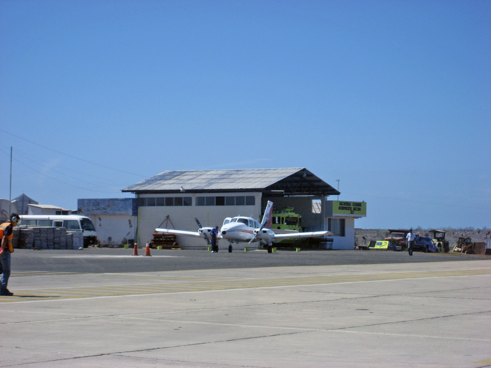 Airport of San Cristoban